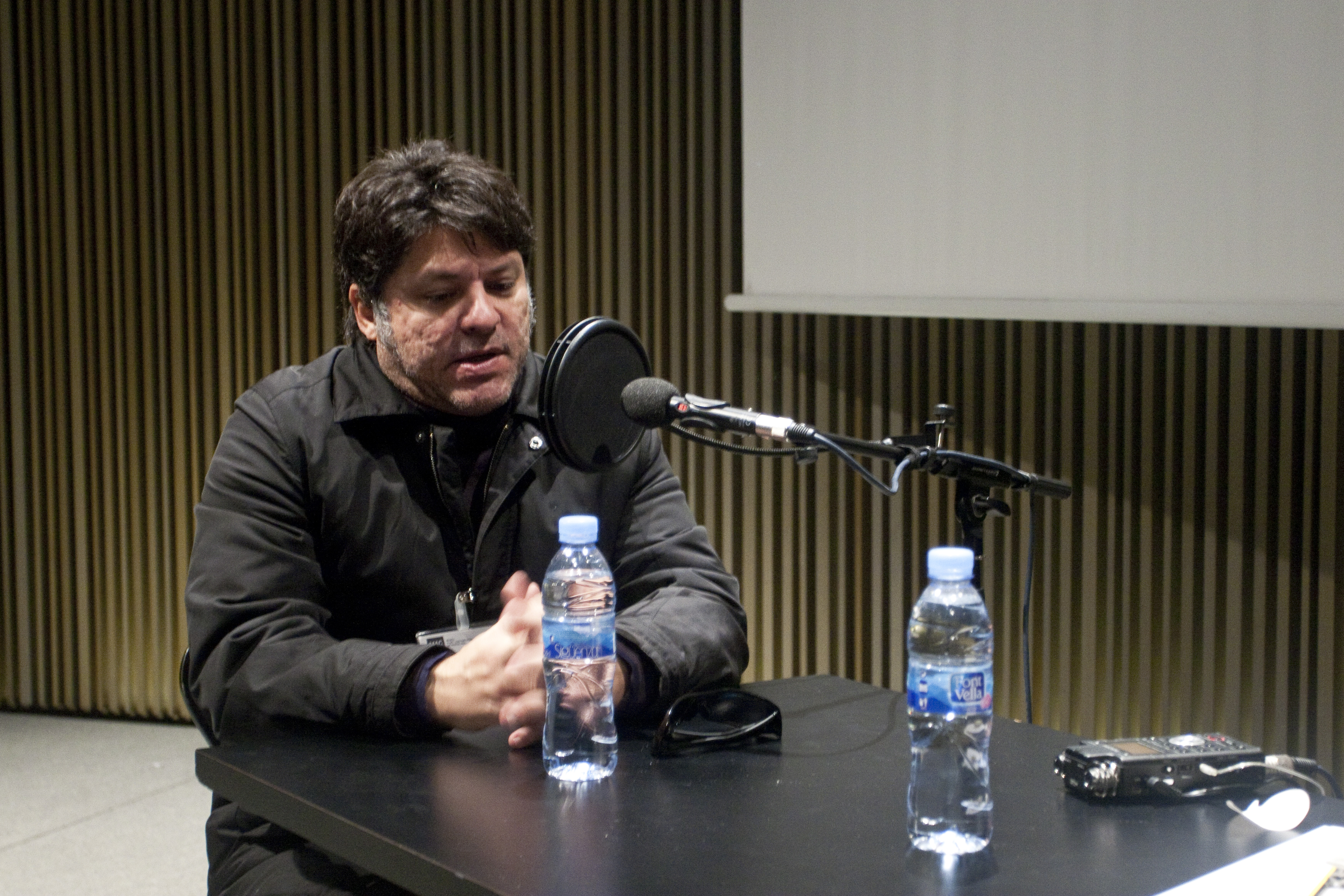 rwm.macba.cat/encrisi_tag Foto: Gemma Planell / MACBA, 2013